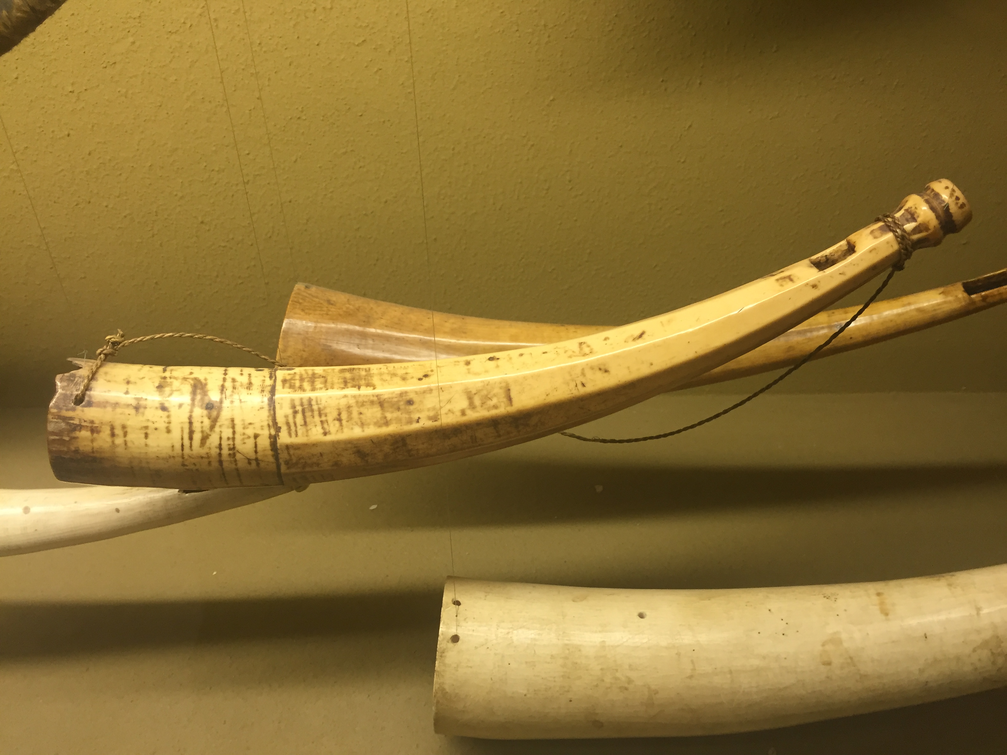 This photograph was taken with an iPhone 6